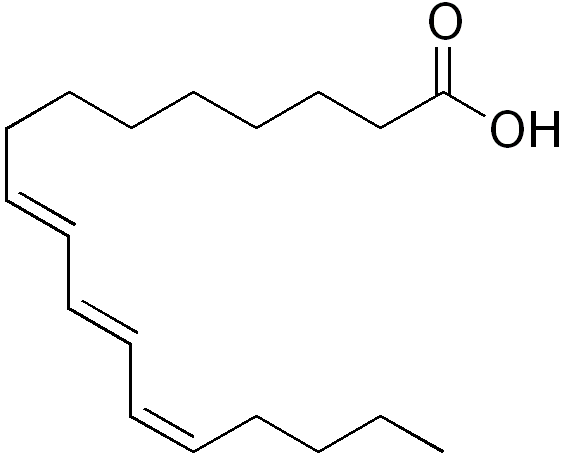 chemical structure of catalpic acid